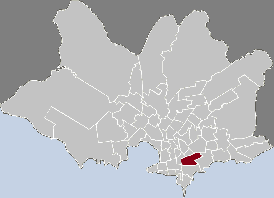 Map highlighting the given barrio in Montevideo.